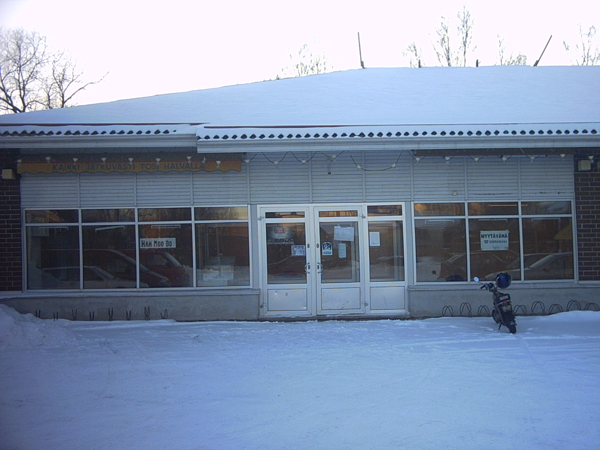 HanMooDo hall of Kauhava.